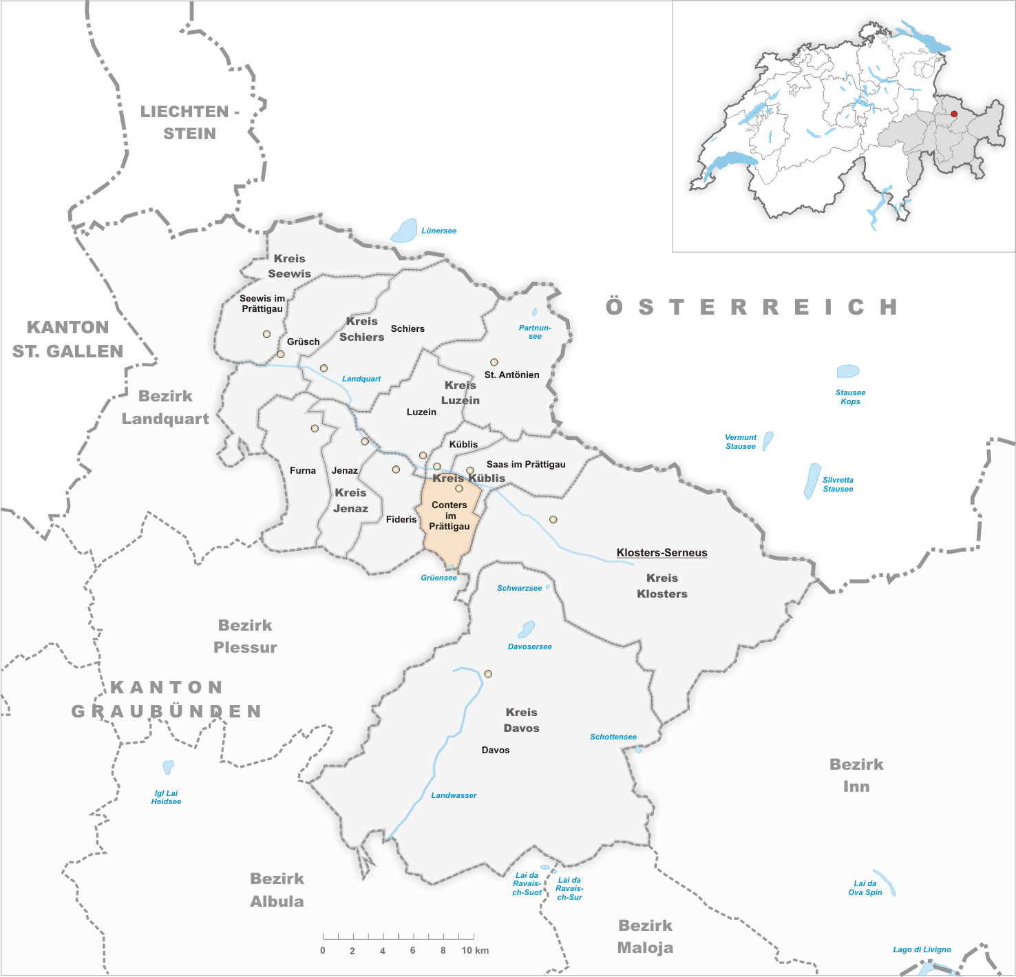 Municipality Conters im Prättigau